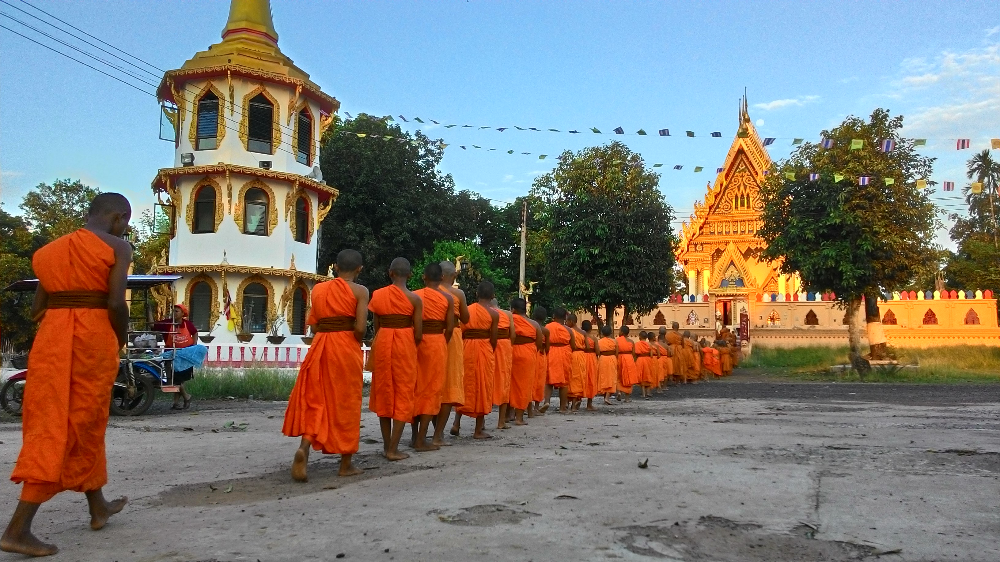 Peace walk by child monks project in Wat Trai Sirimongkhon Buddhist Temples,Nong bun mak district,Nakhon Ratchasima province,northeastern Thailand.